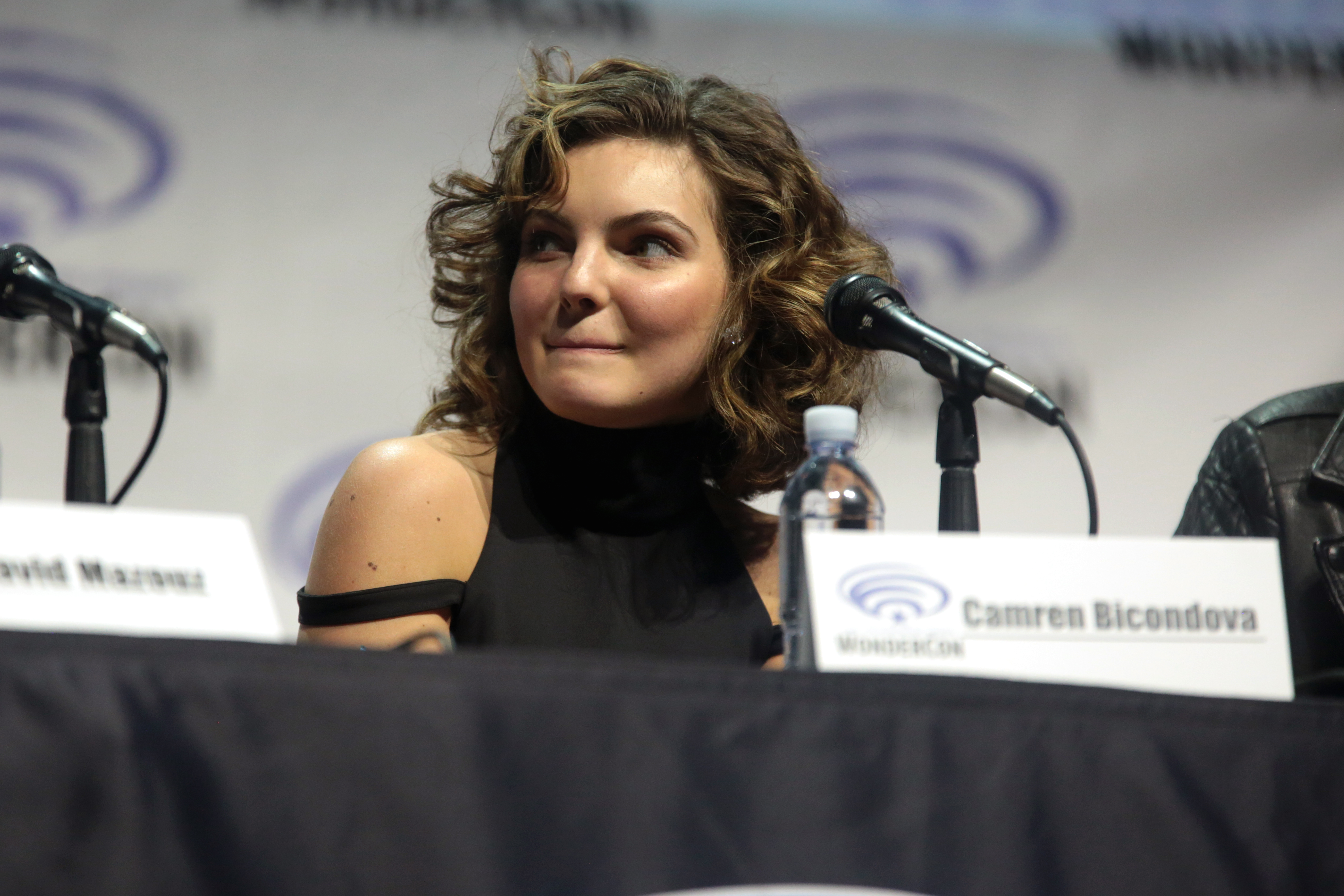 Camren Bicondova speaking at the 2017 WonderCon, for "Gotham", at the Anaheim Convention Center in Anaheim, California.